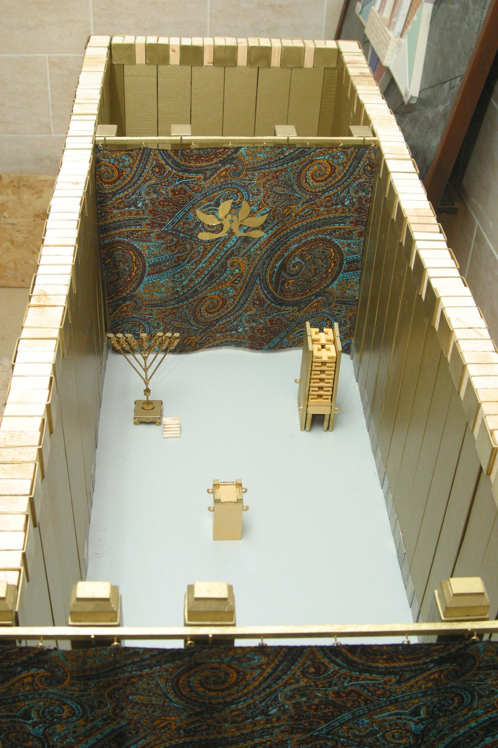 A model of the Tabernacle using a straight-branched menorah, which may not be historically accurate.